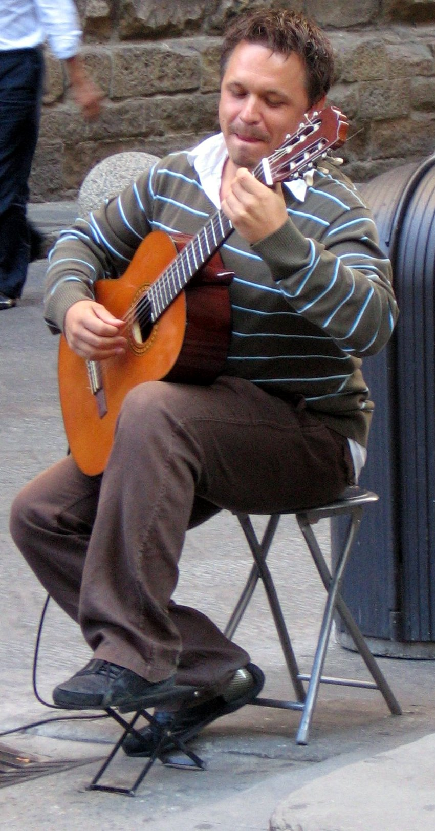 The guitarist Piotr Tomaszewski playing in Firenze, just outside the Uffizi Gallery.